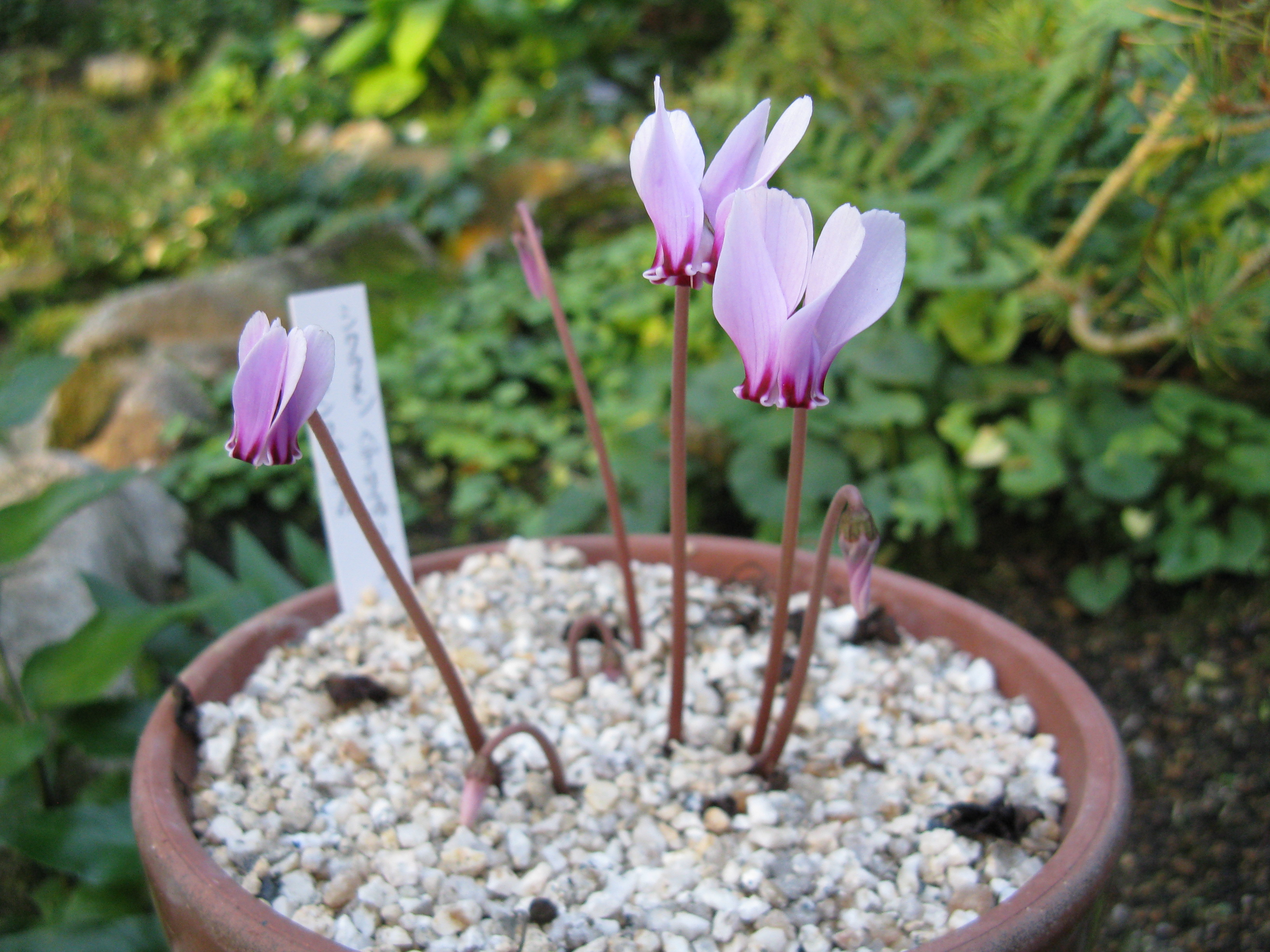 Cyclamen hederifolium ssp. confusum at Osaka Prefectural Flower Garden, Osaka, Japan